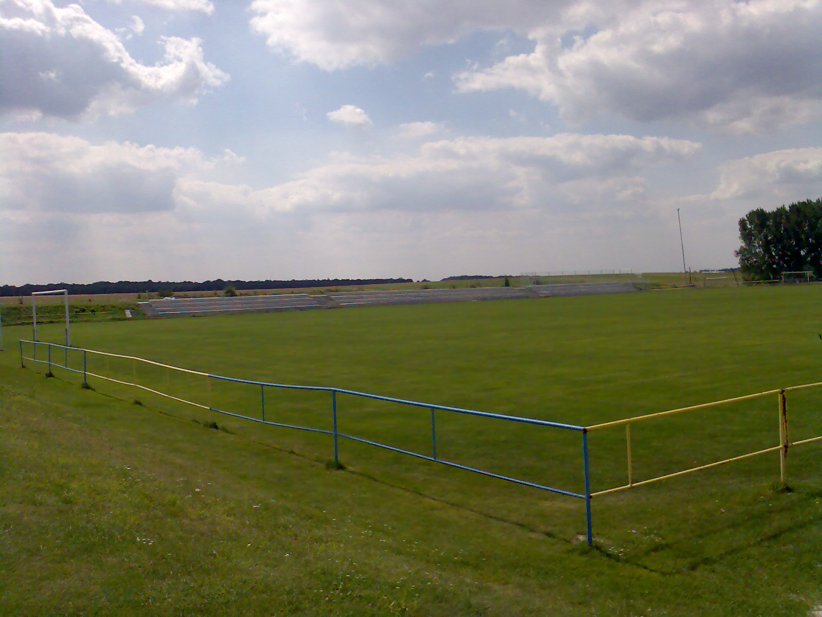 Playing field of Przyszlosc Ciochowice (Poland)